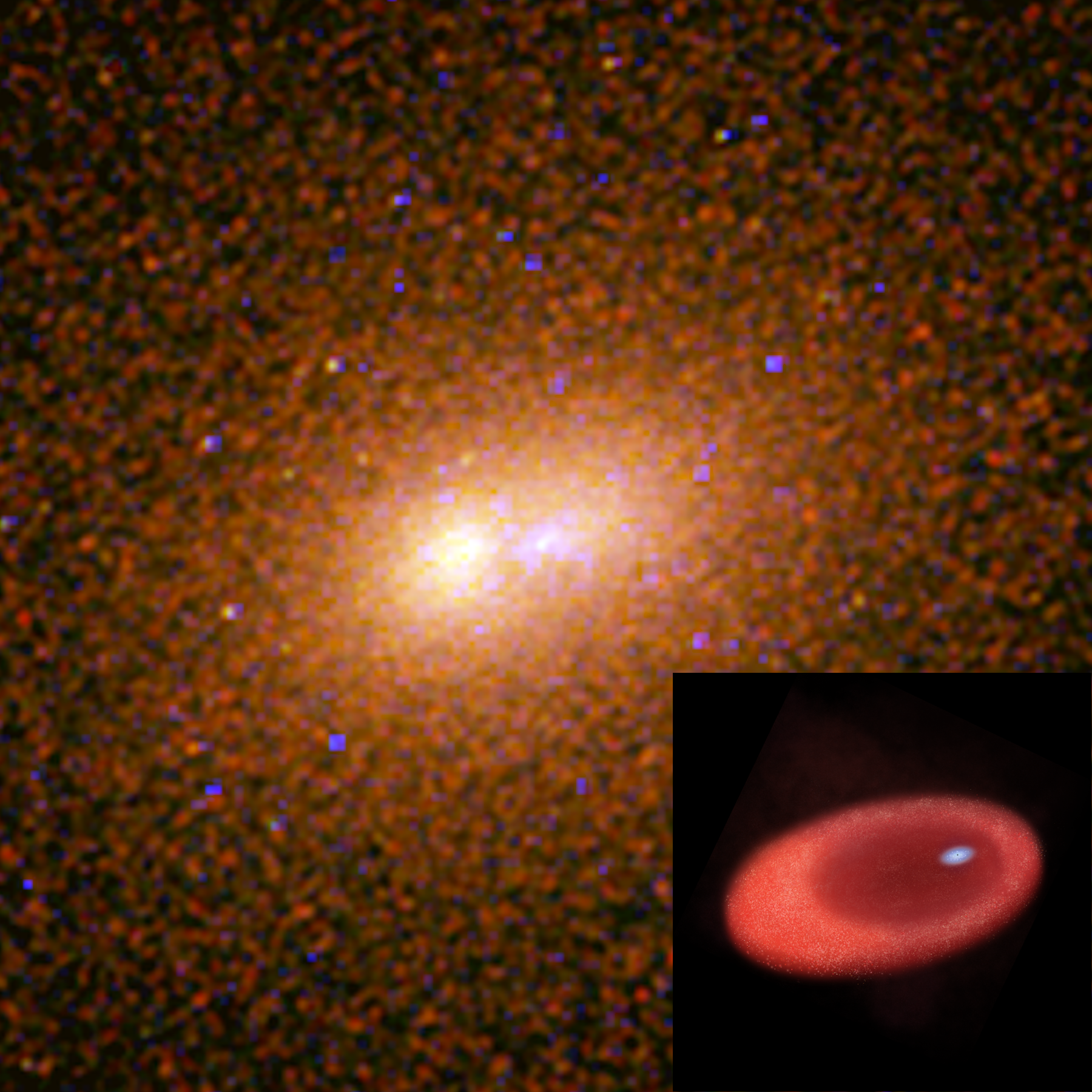 Andromeda Galaxy (M31) - HST WFPC2 & Artist's rendition A Hubble WFPC2 image of the core of M31. Astronomers believe the two bright objects are a ring of red stars and a disk of blue stars. Credit: NASA, ESA and T. Lauer Artist's rendition of the core of M31 that shows a ring of older red stars and a disk of young blue stars. Credit: NASA, ESA, and A. Feild